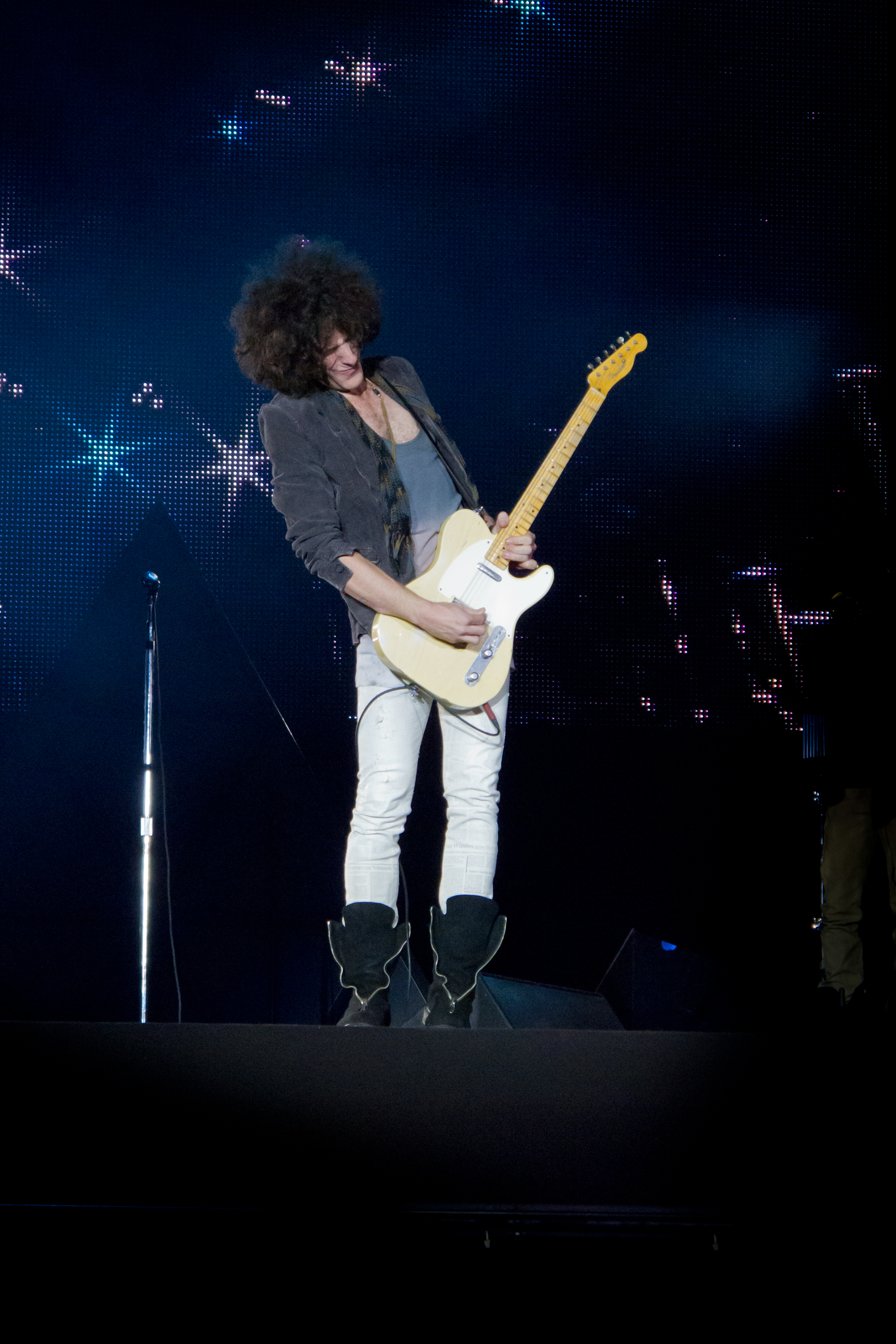 Lenny Kravitz and Craig Ross live in Rock in Rio Madrid 2012.